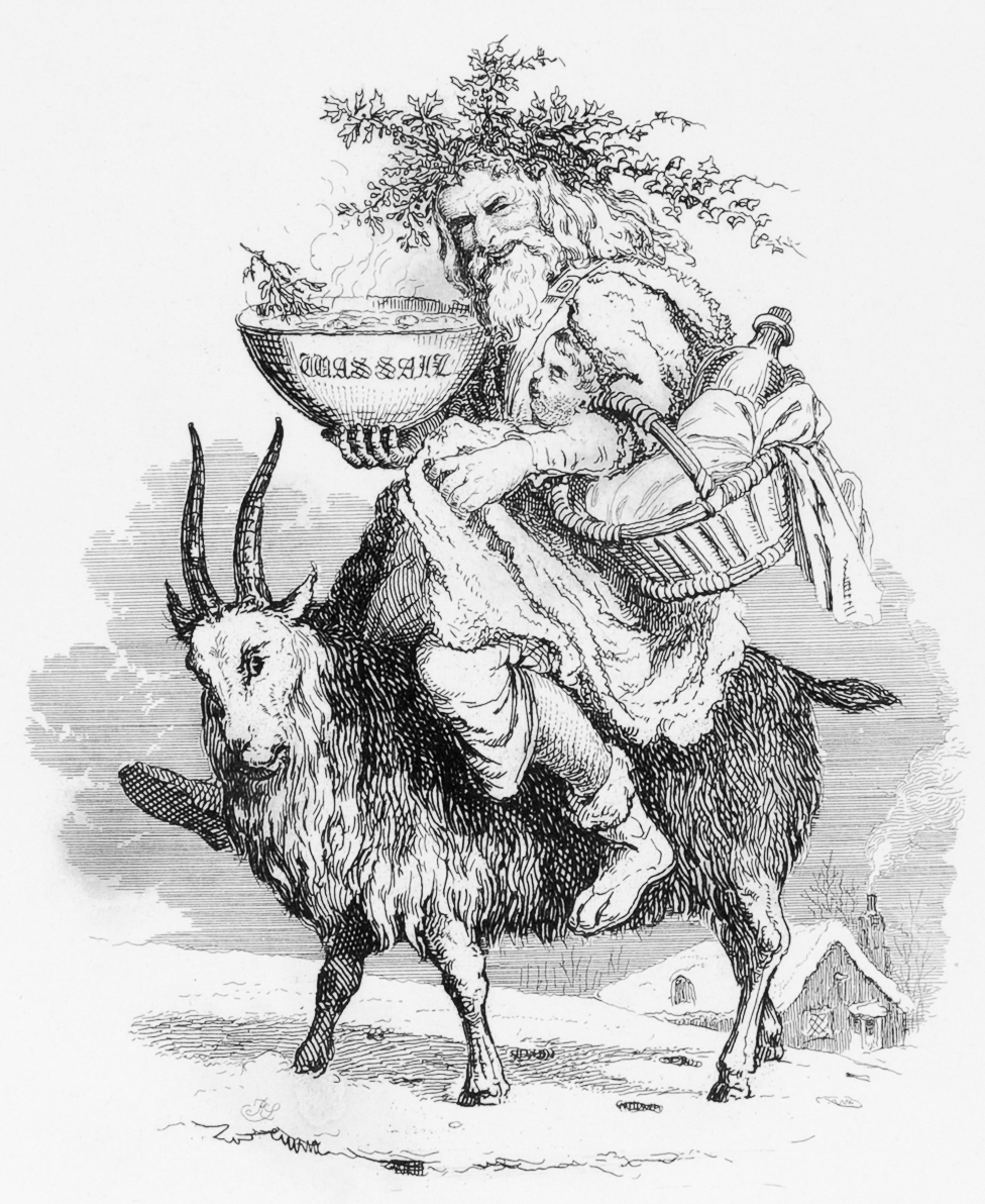 'Old Christmas', shown riding a yule goat. The original illustration is entitled 'Old Christmas' and is accompanied by a verse: "In furry pall yclad, / His brows enwreathed with holly never sere, / Old Christmas comes to close the wained year: Bampfylde".